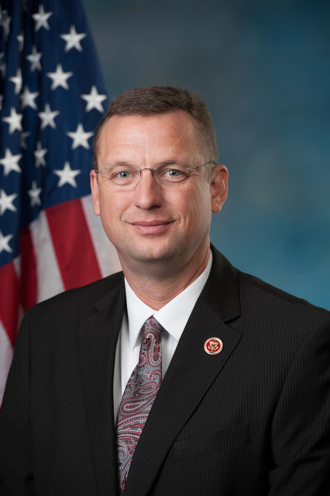 US Congressman Doug Collins of Georgia